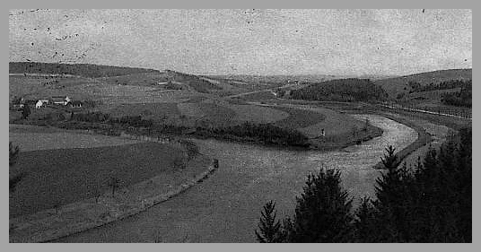 Confluence river Luznice (left) and Vltava (Czech river) –about 1920